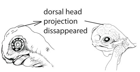 Standard Event System character depiction